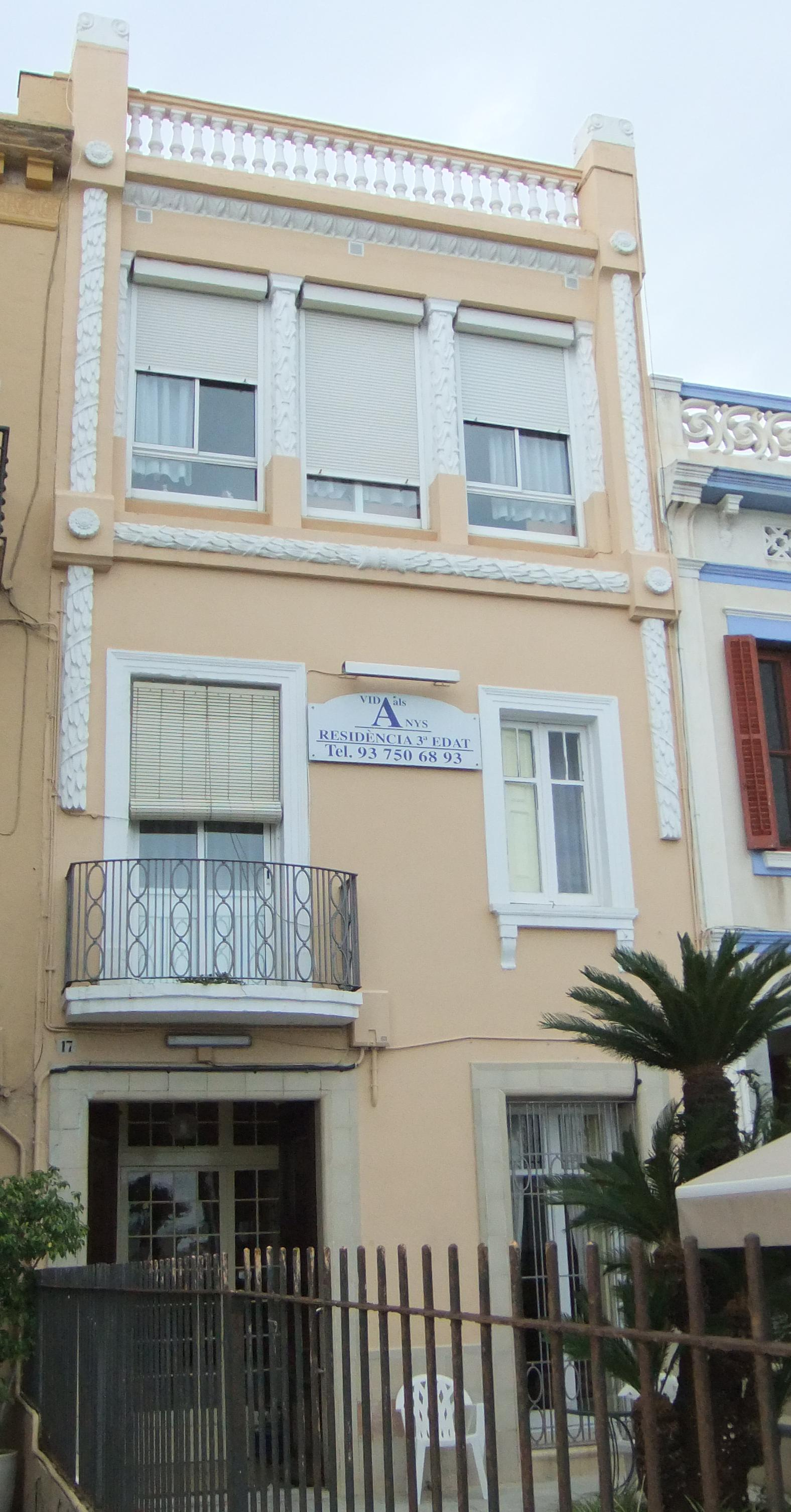 Home of the architect Eduard Ferrés i Puig. St. Pau street, 17. Vilassar de Mar.